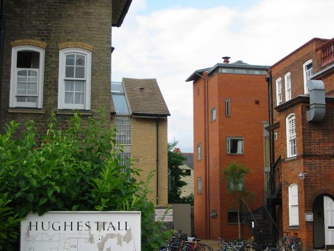 Description at en.wiki: Hughes Hall, Cambridge. Taken by me.